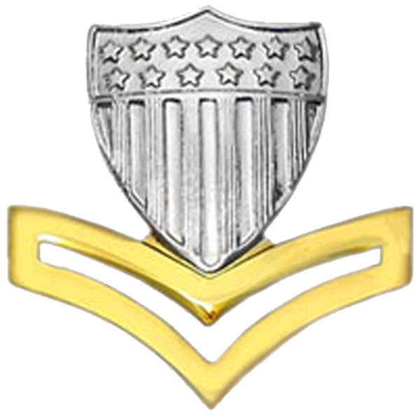 U. S. Coast Guard 2nd Class Petty Officer Collar Insignia